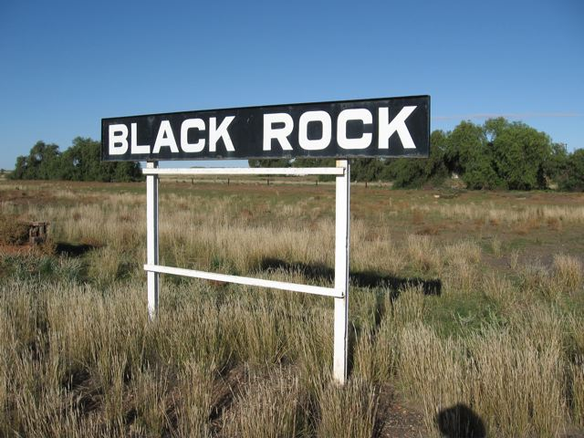 Station name board at Black Rock South Australia